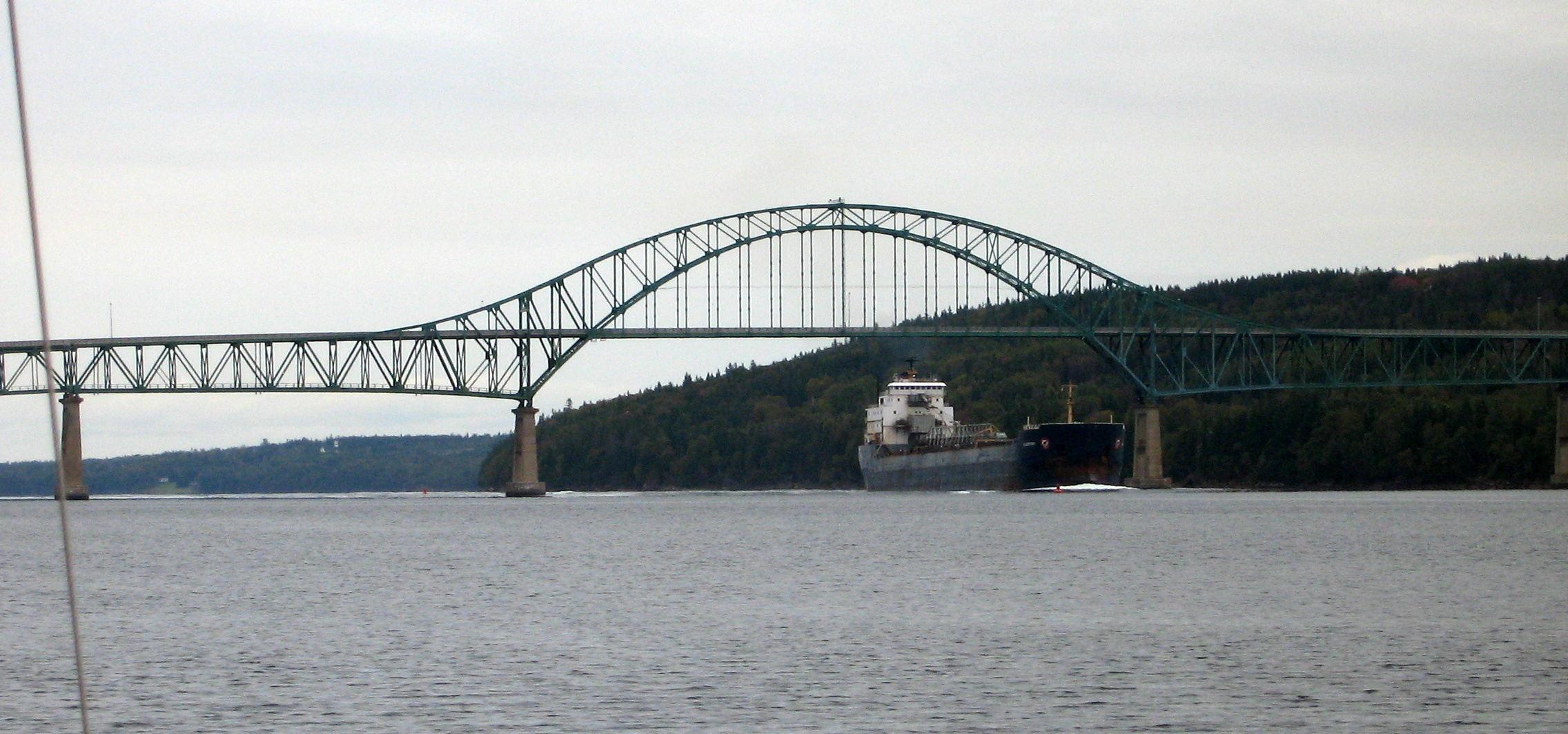 The medium sized self-unloader Algoport passing under the Seal Island Bridge entering Cape Breton Island's Bras d'Or Lake system to load at Little Narrows Gypsum.